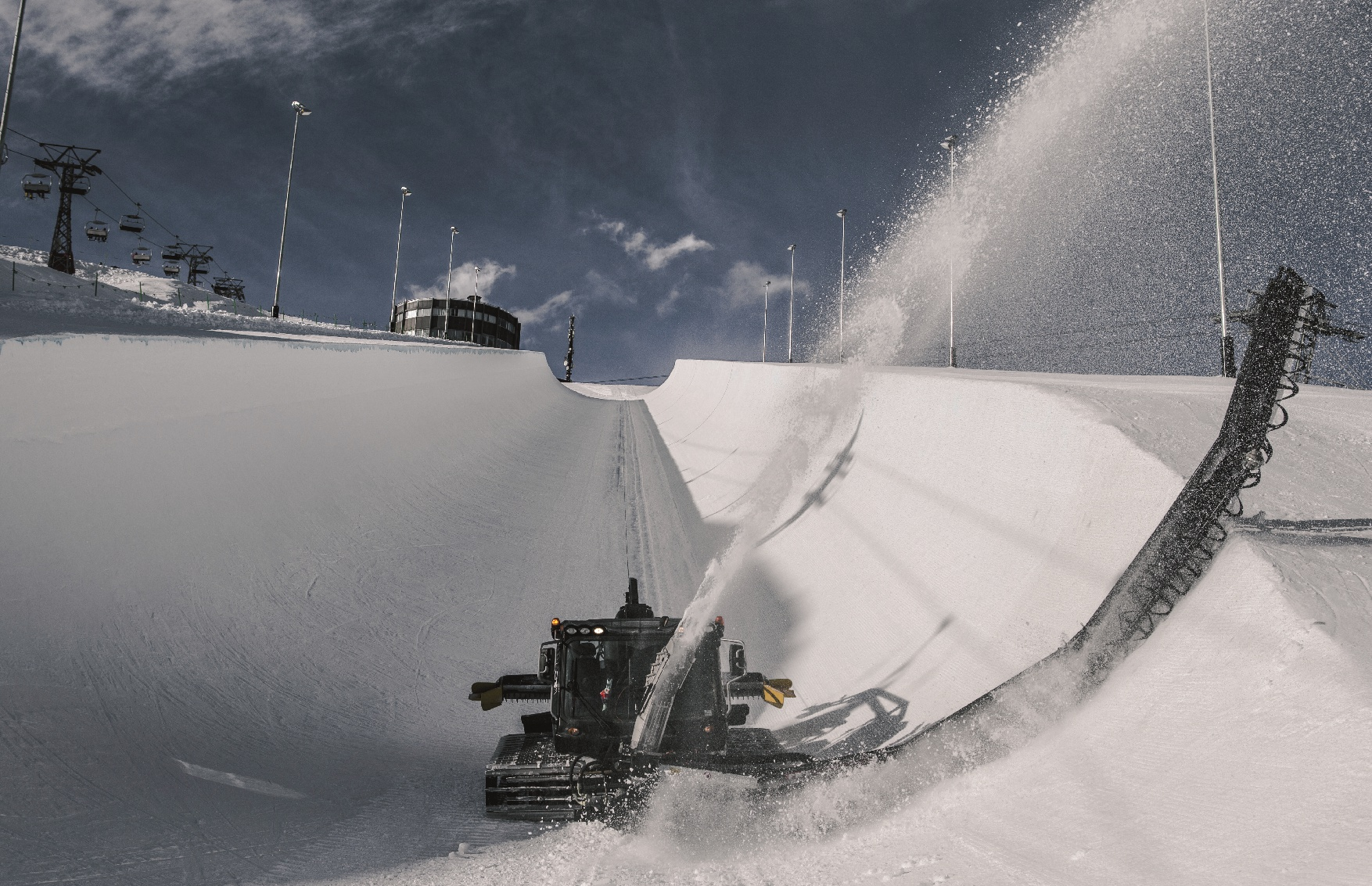 Pipe Monster LAAX Edition shaping the Superpipe